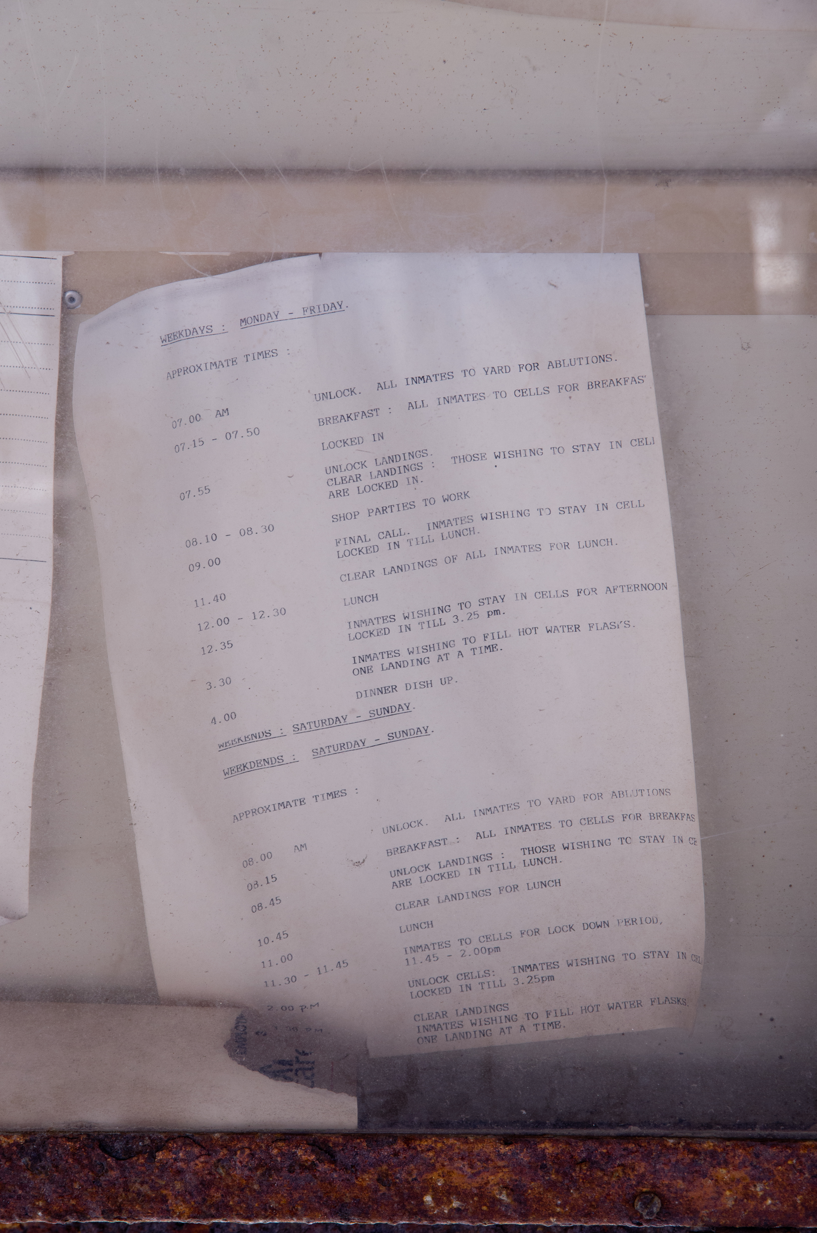 Fremantle Prison daily routine for prisoners c1990